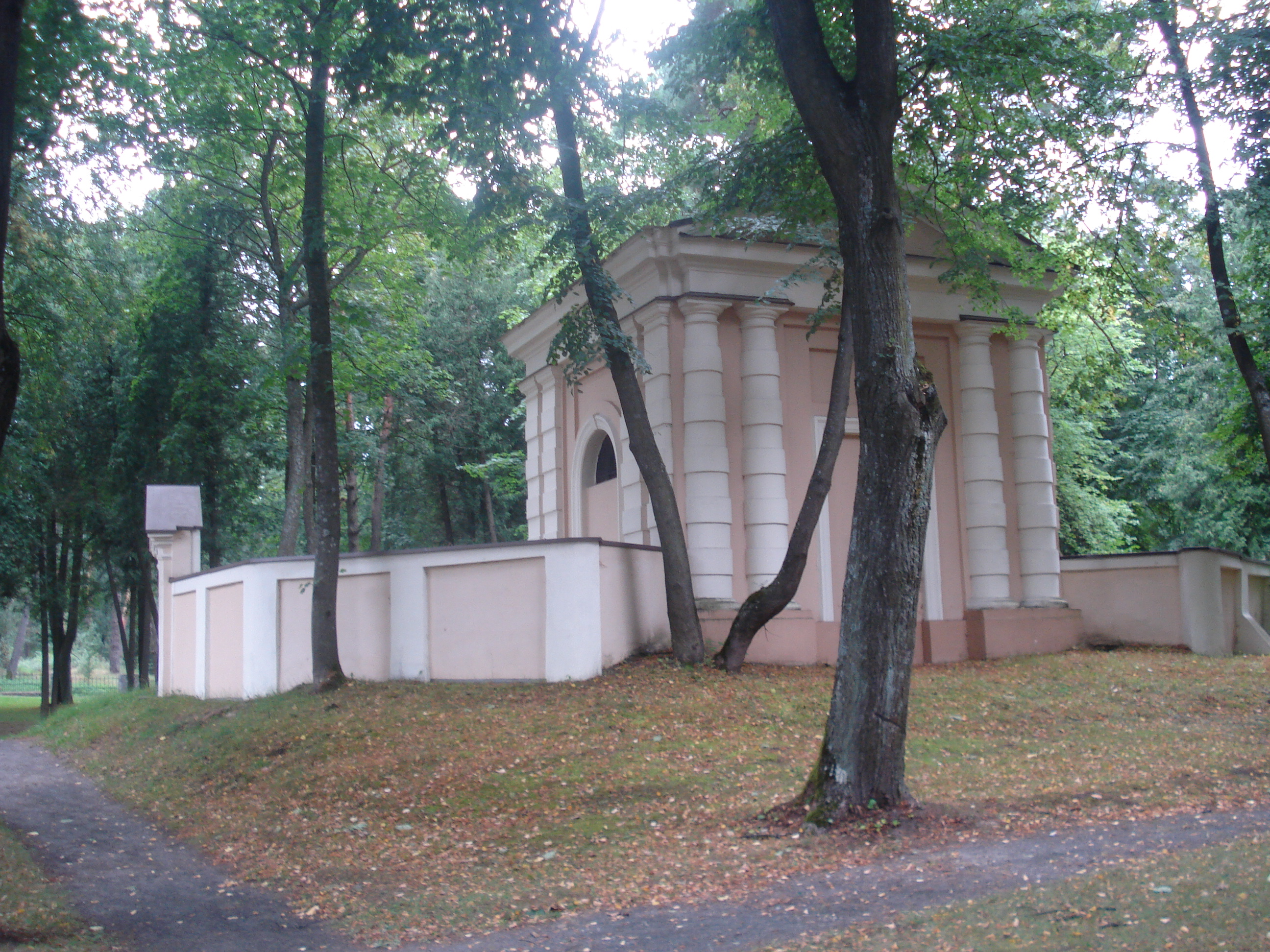 Chapel on the grave of Repnina the Vingis park in Vilnius